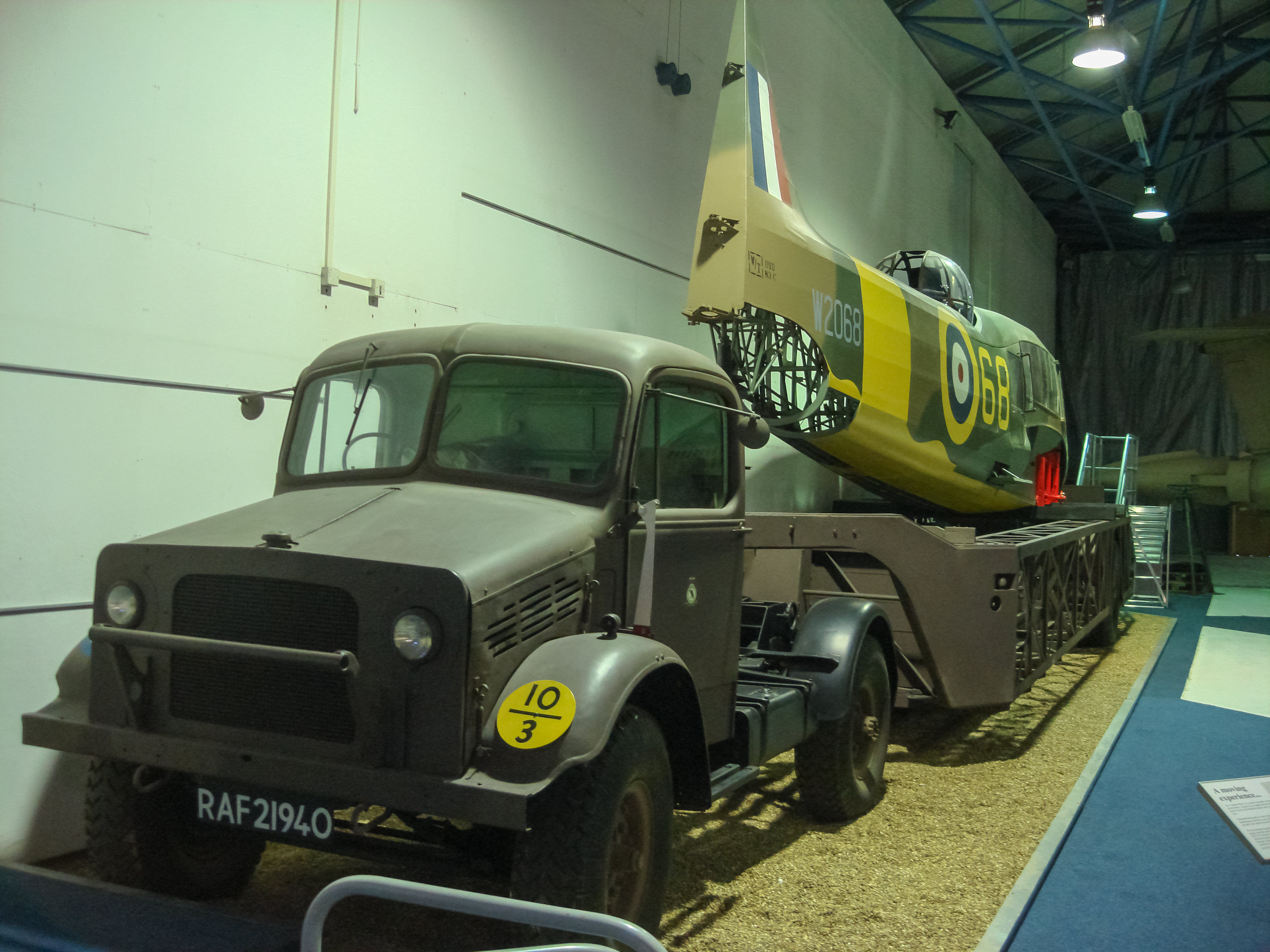 Edited to open up the shadows and remove the colour noise